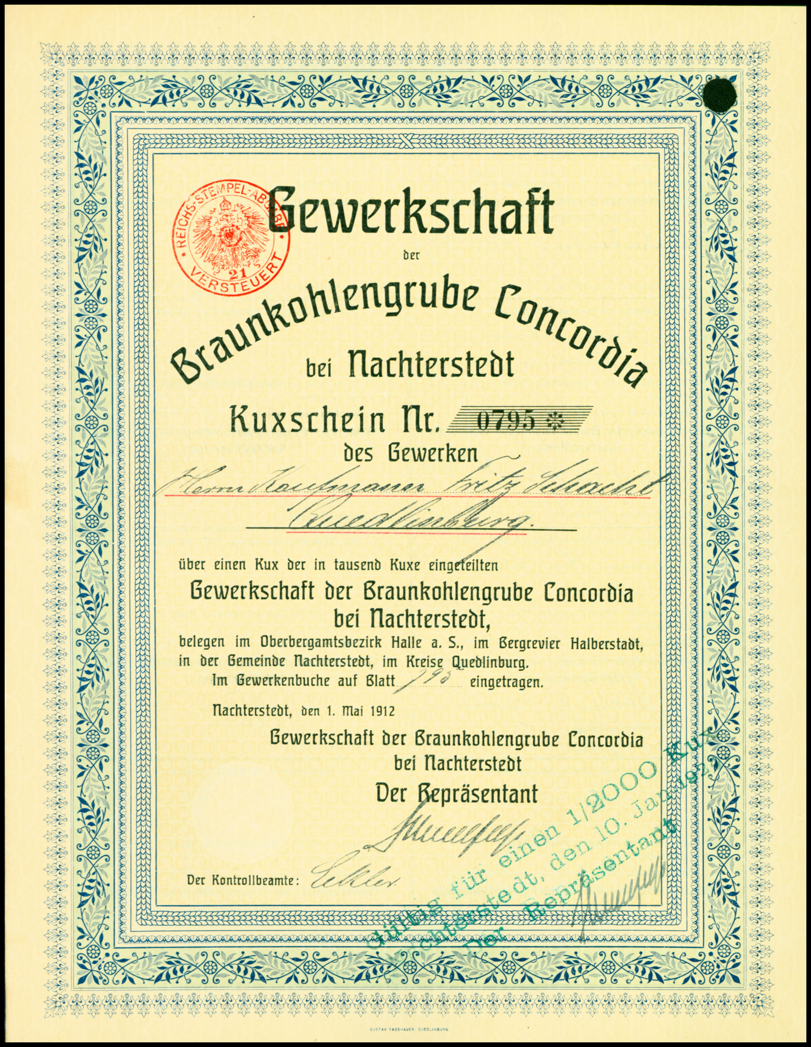 Mining share of the Gewerkschaft der Braunkohlengrube Concordia, issued 1. May 1912